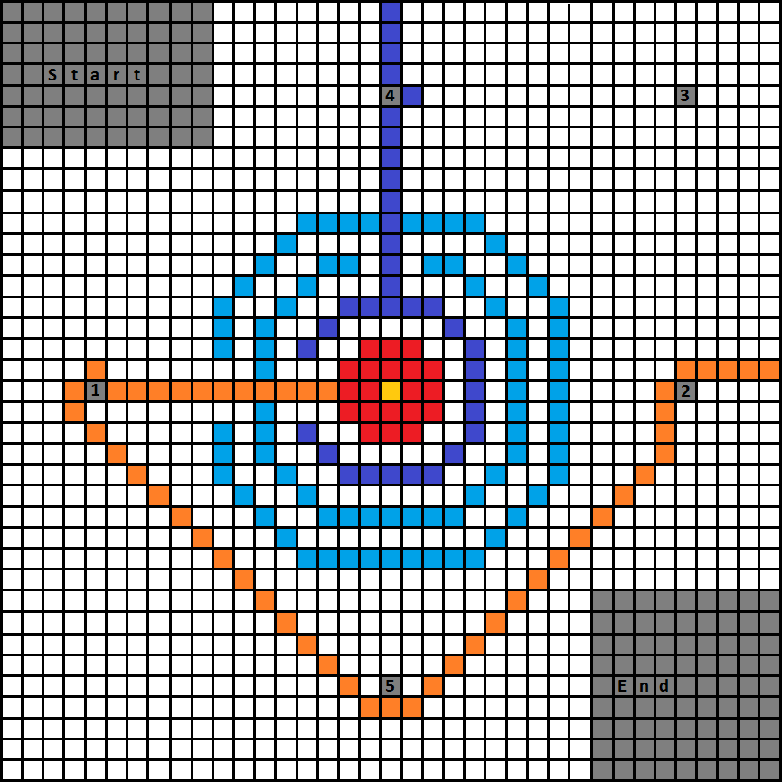 Maze for GemTD Reborn, a DotA 2 custom game